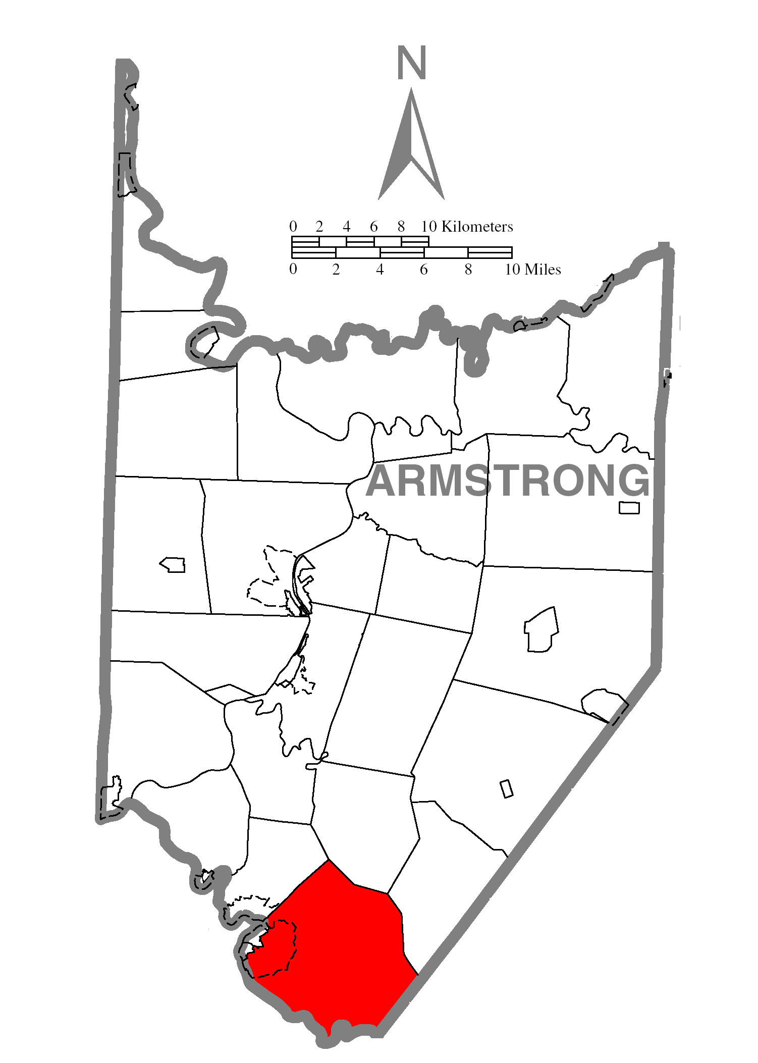 A map of Armstrong County showing Kiskiminetas Township, Pennsylvania (alternate) highlighted on the map.